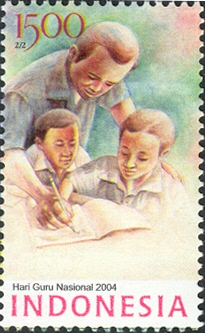 Stamps of Indonesia